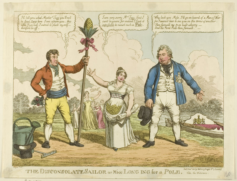 The Disconsolate Sailor, 1811; a cartoon by Charles Williams (active 1797-1830 under the pen name 'Argus').